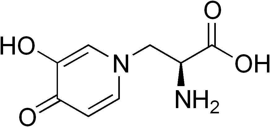 chemical structure of L-mimosine